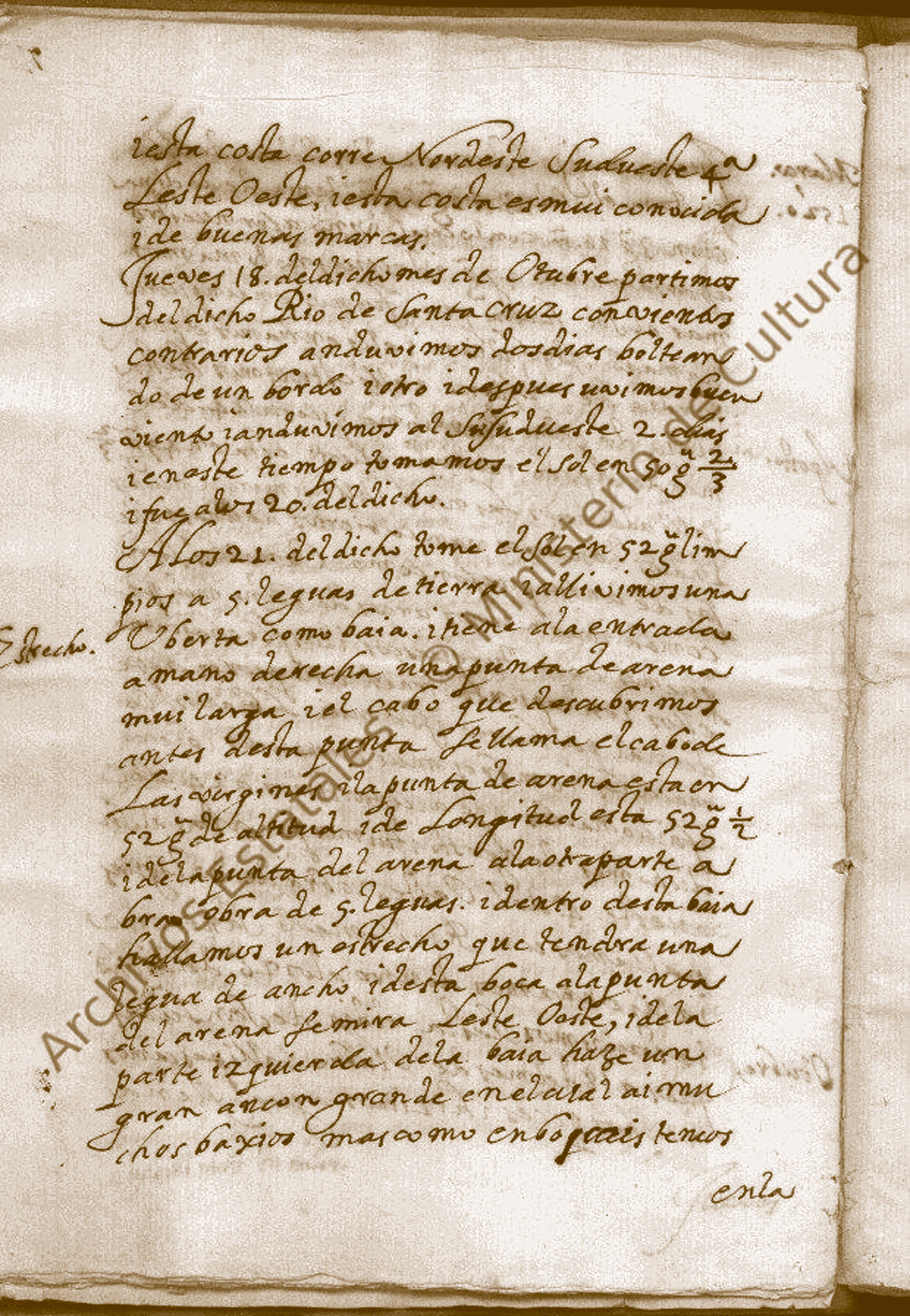 Pagina the course of Francisco Albo* which details the discovery, the Strait of Magellan. (* Francisco Albo was the pilot of the Victoria, see Ferdinand Magellan).